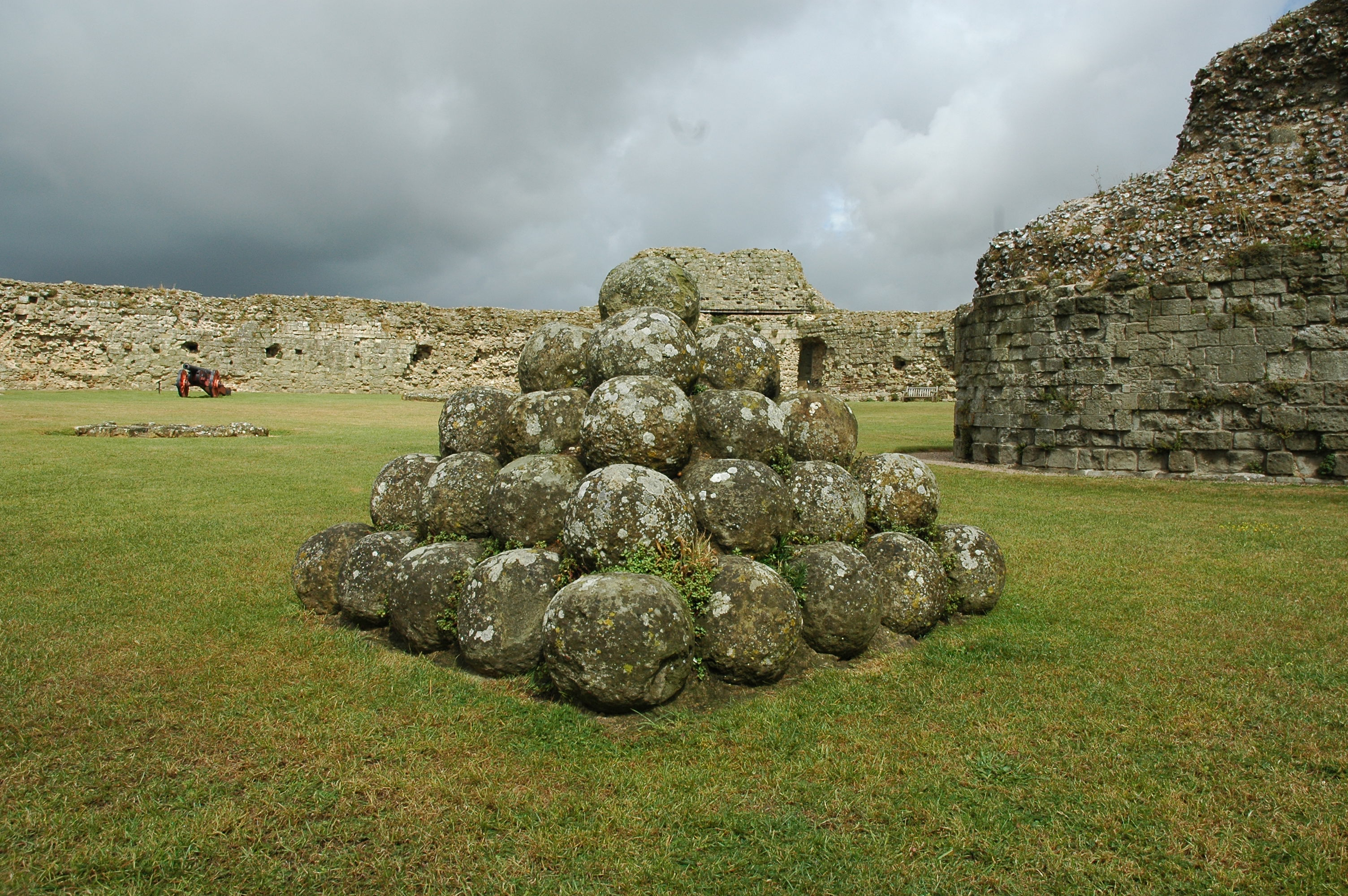 Stone catapult balls at Pevensey Castle